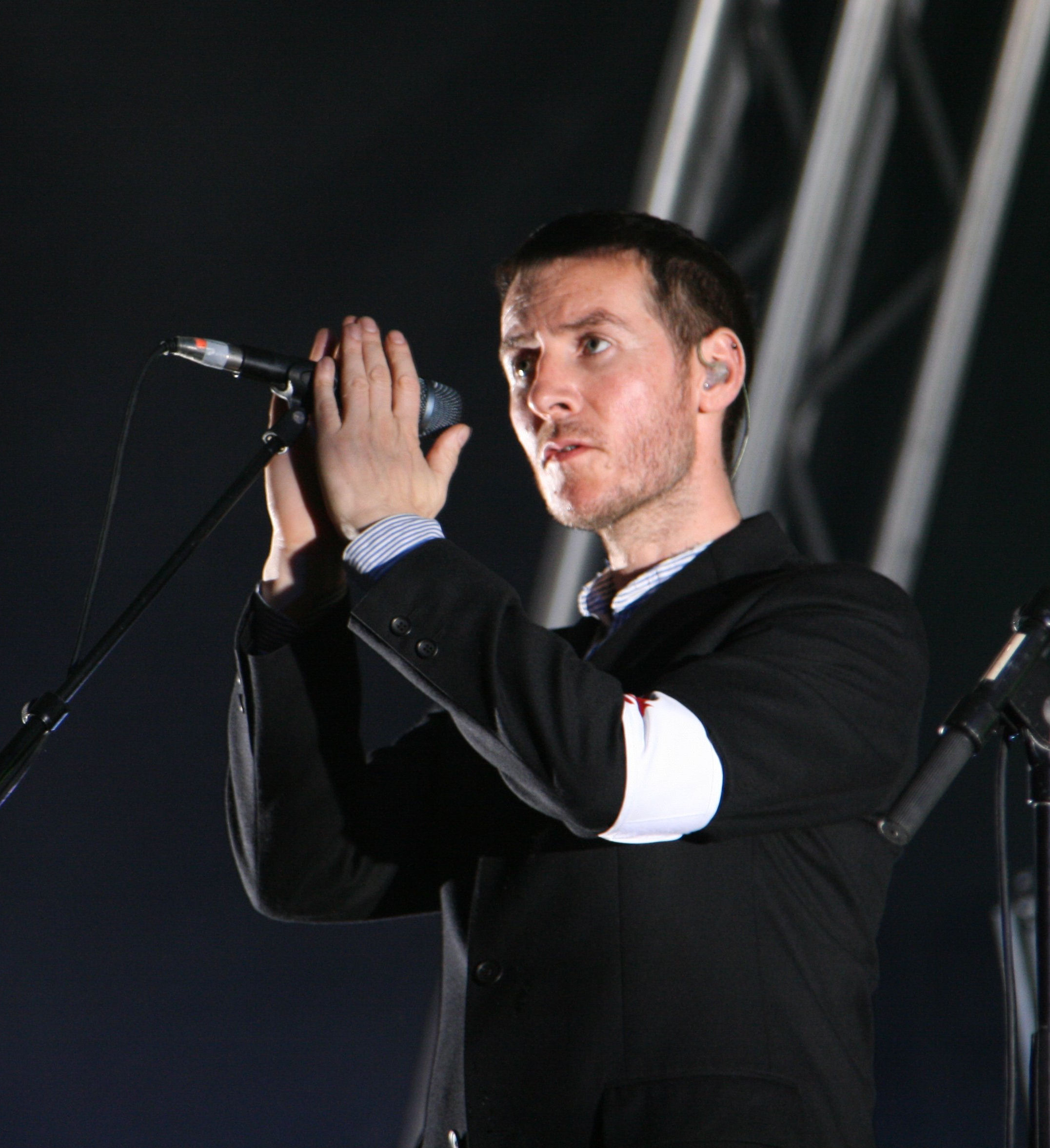 Robert Del Naja (membre fondateur de Massive Attack) - concert à Barcelone (septembre 2007) Robert Del Naja (founding member of Massive Attack) - concert in Barcelona (september 2007)